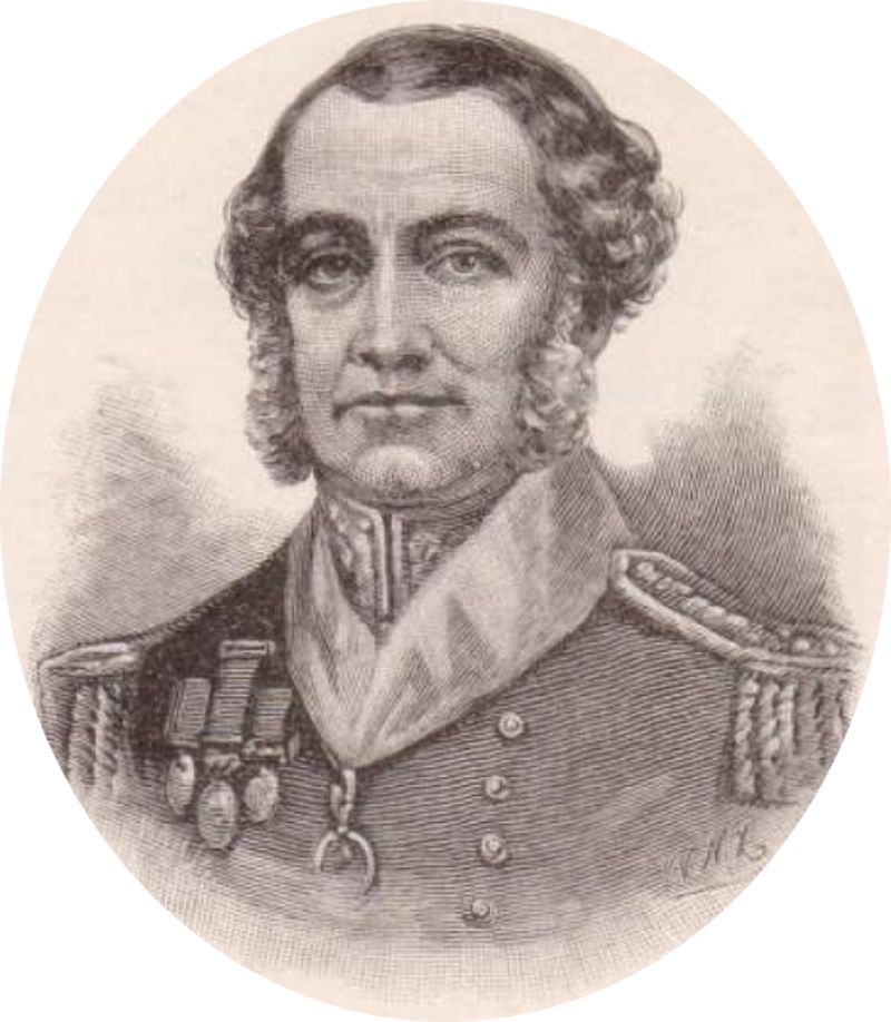 Engraving of Governor Charles Augustus Fitzroy circa 1850